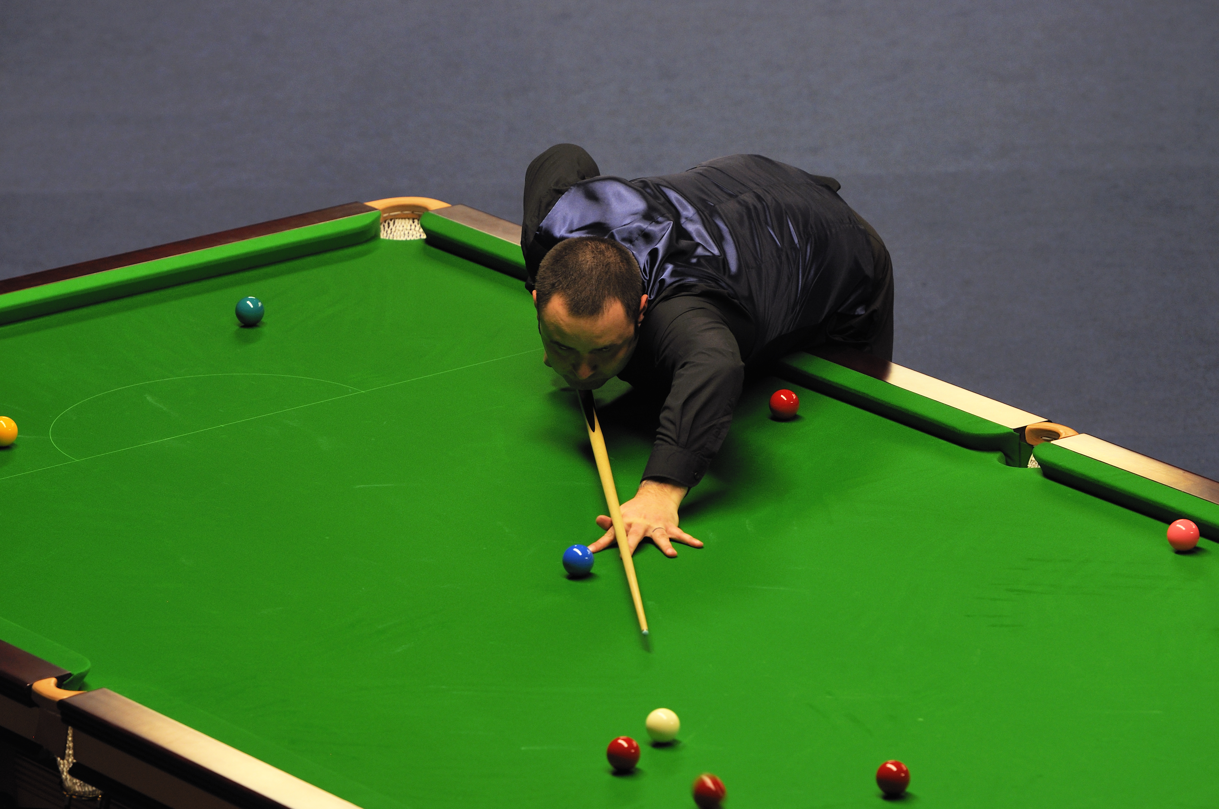 Picture taken in Berlin during the Snooker German Masters in 2013. Stephen Maguire.